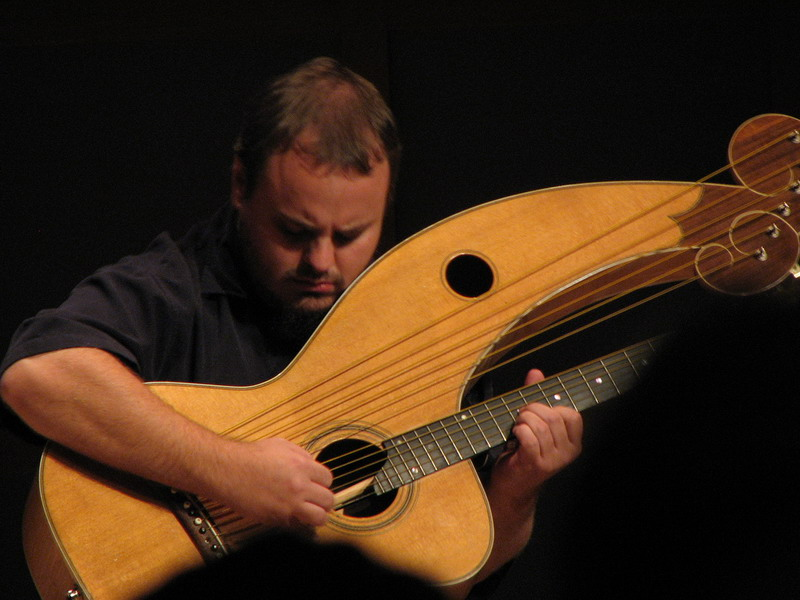 Photo by Kasra Ganjavi